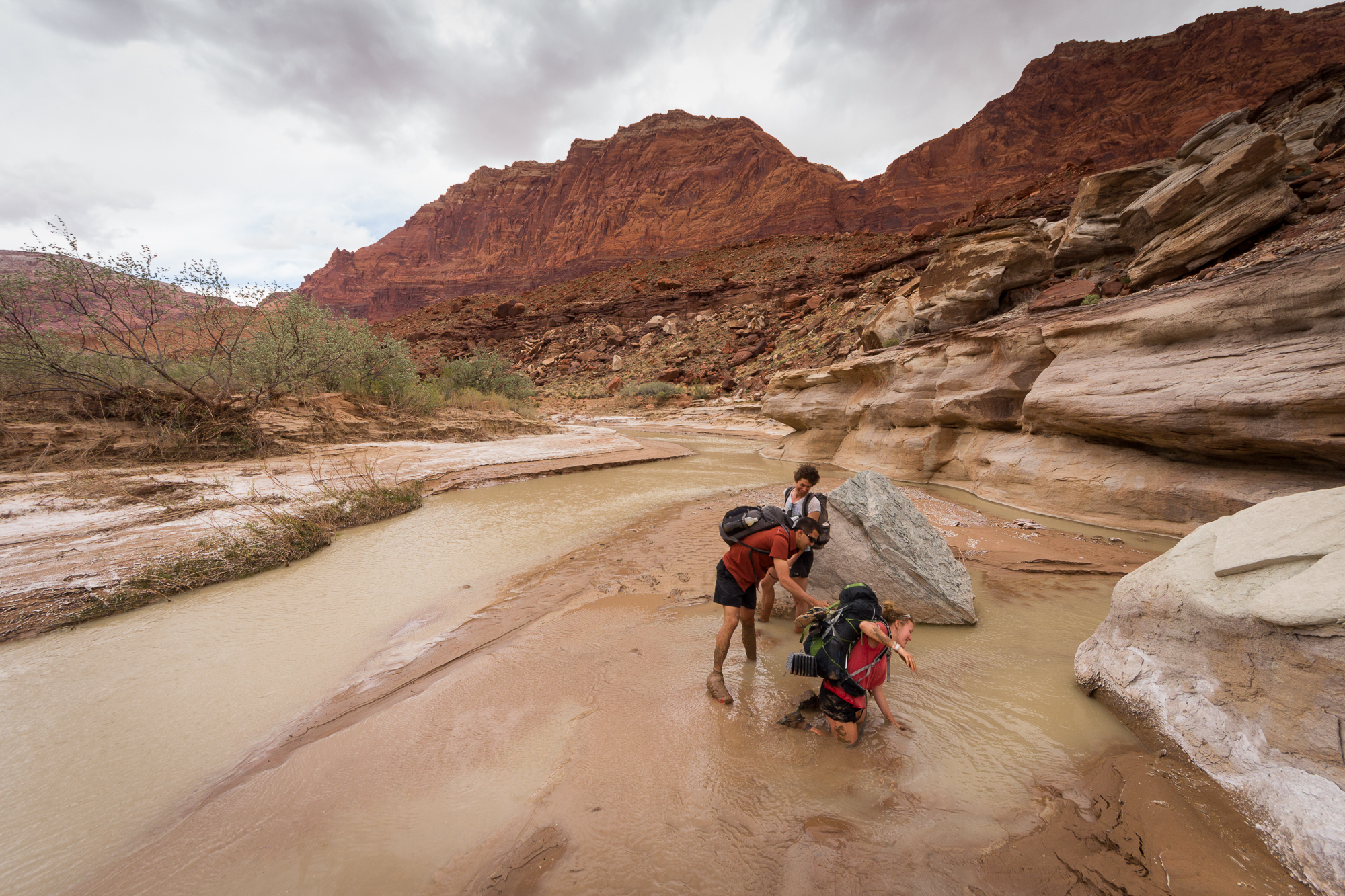 Stuck in quicksand at the Paria River